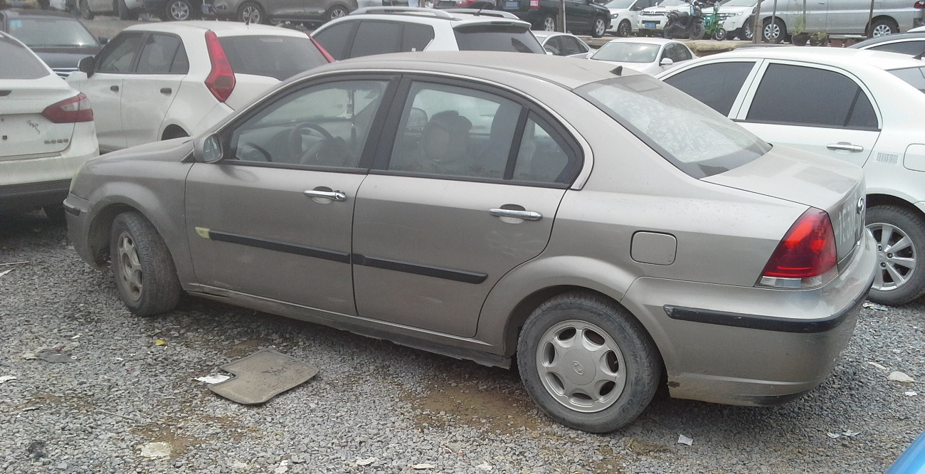 Hafei Saibao III photographed in Zhengzhou, Henan province, China.